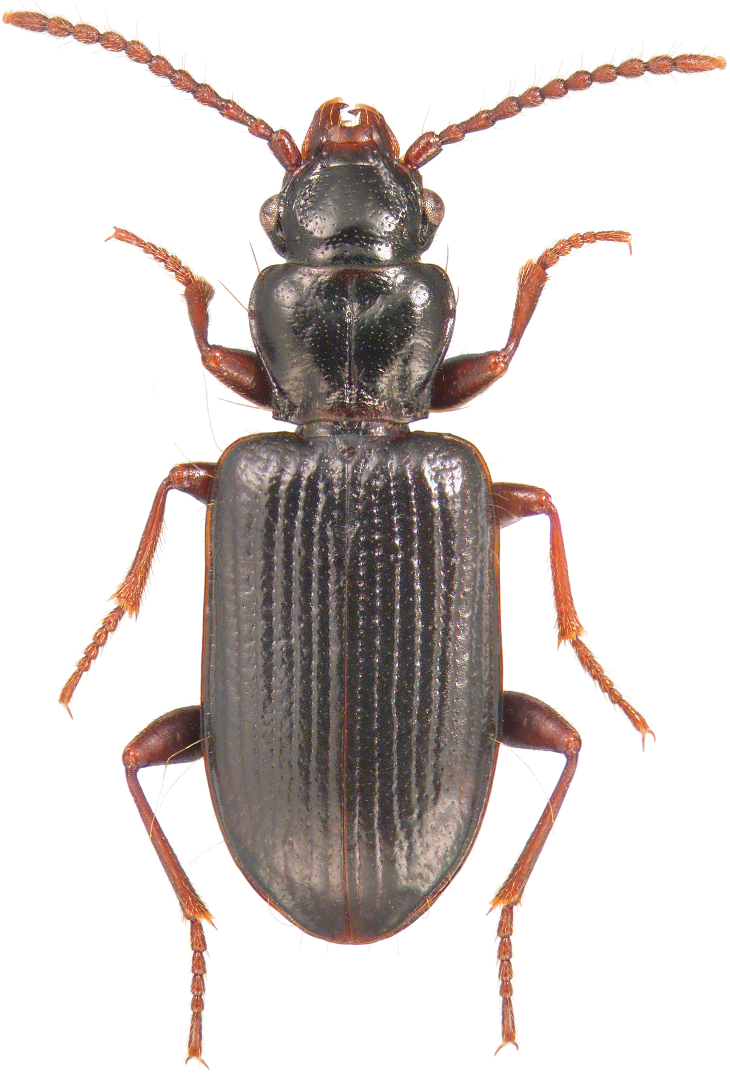 Psydrus piceus LeConte. This species is widely distributed west of the Rocky Mountains where it is usually found under the bark of relatively large coniferous trees. It is also found within the boreal regions east of the Rockies but is very rarely collected there. This species belongs to the same tribe as Nomius pygmaeus but unlike that species, the adults do not emit an unpleasant smell.